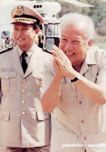 Norodom Ranariddh accompanying Norodom Sihanouk during his days as commander in chief of Armee Nationale Sihanoukiste